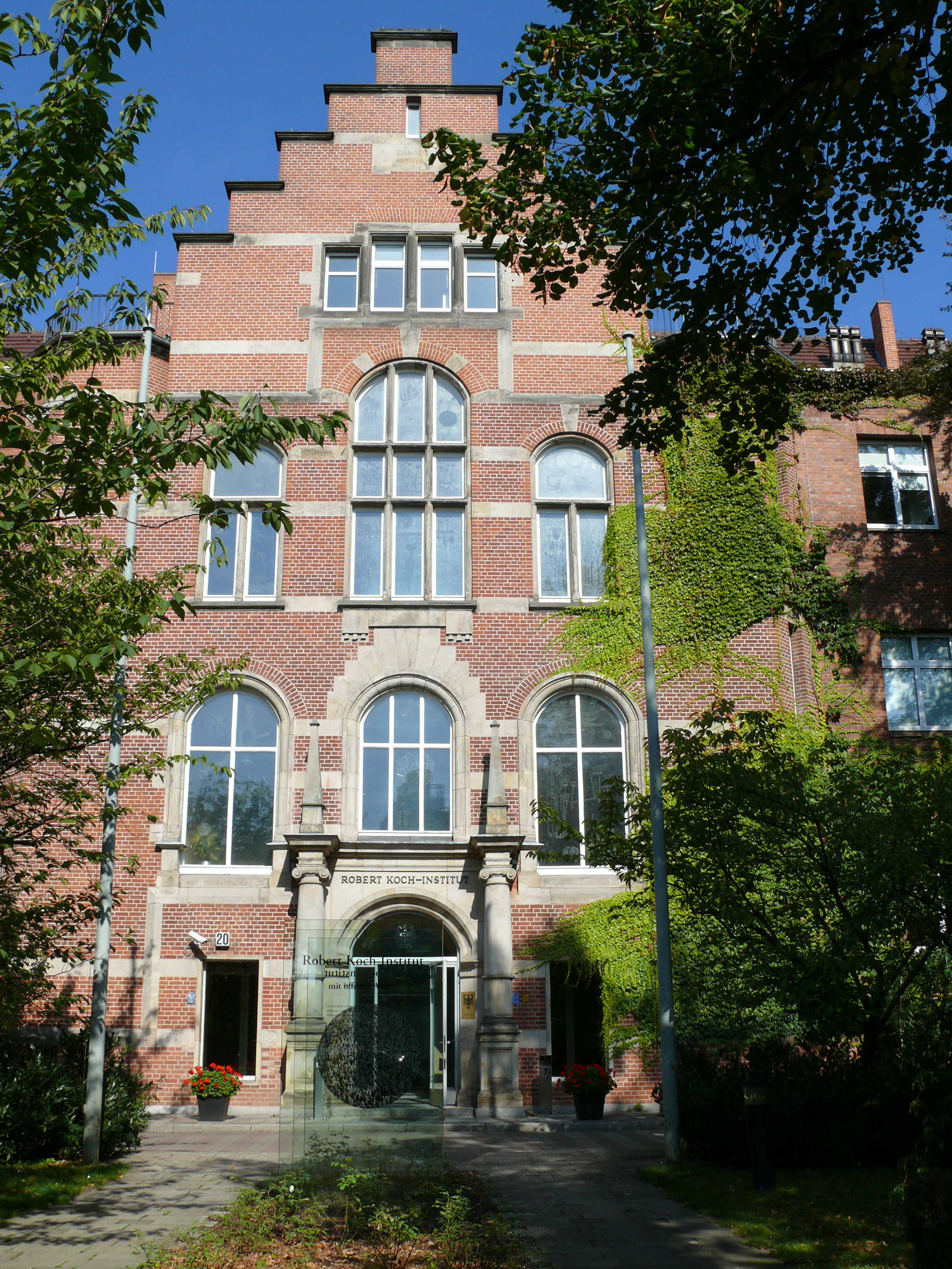 Berlin-Wedding Nordufer Robert Koch Institut